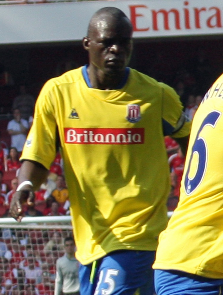 Abdoulaye Diagne-Faye, during an Arsenal vs Stoke City match in May 2009. This file has been extracted from another file: Arsenal v Stoke City FC - Andrey Arshavin.jpg